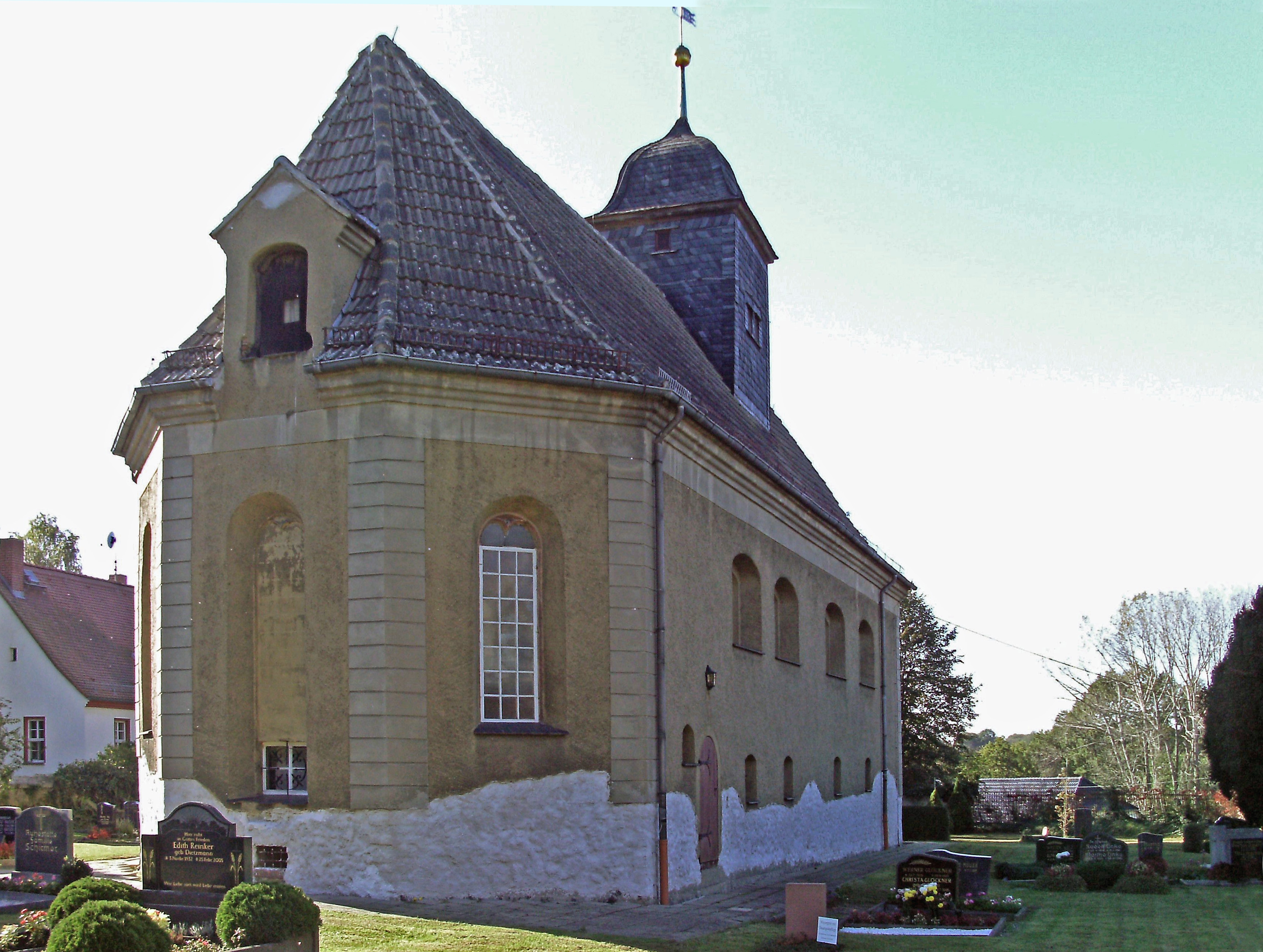 St. Nicholas Church in Kitzscher (Leipzig district, Saxony)